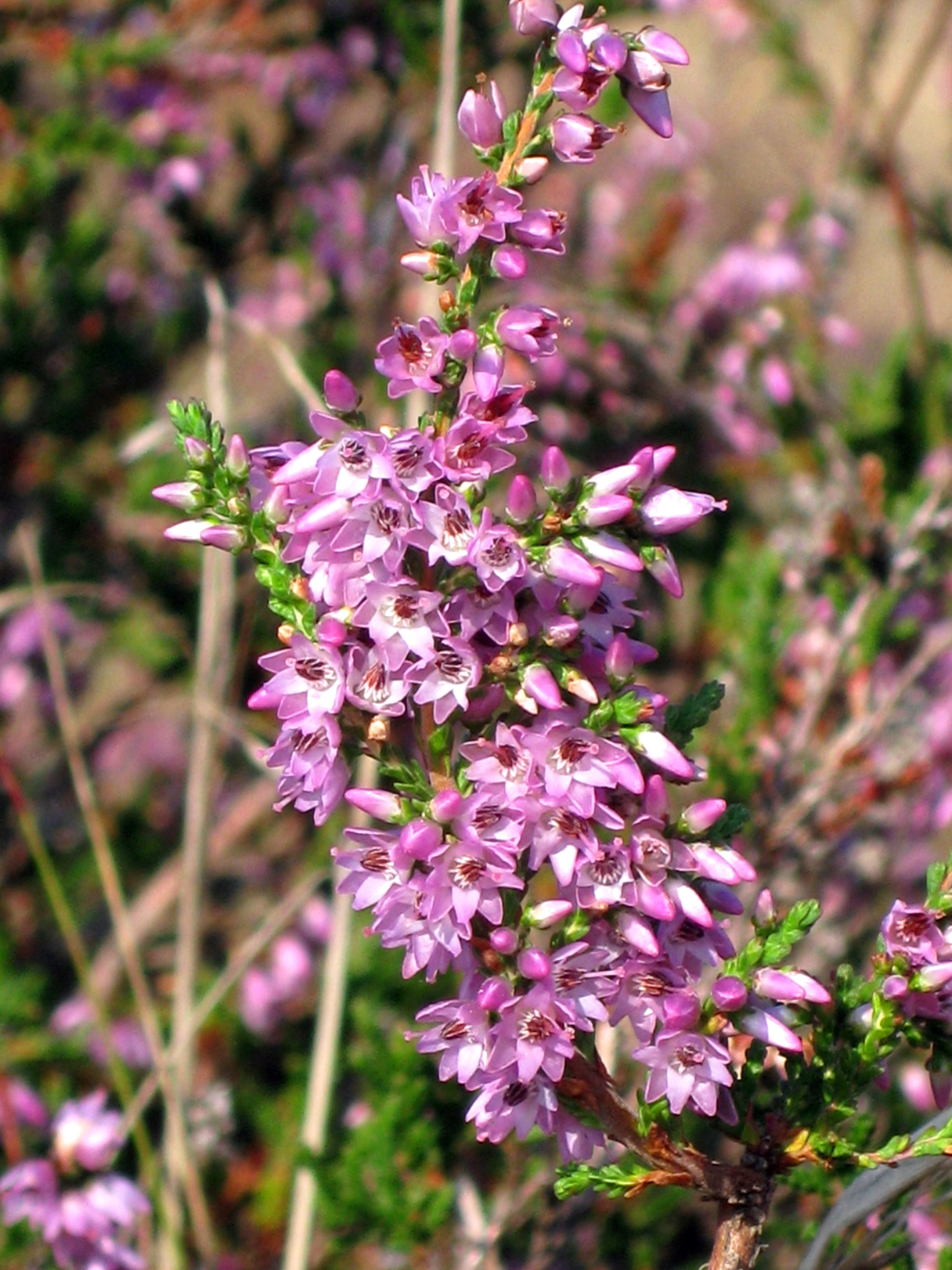 Close-up view of flowers of Calluna vulgaris taken in the Döberitzer Heide close to Berlin/Germany on 26.08.08